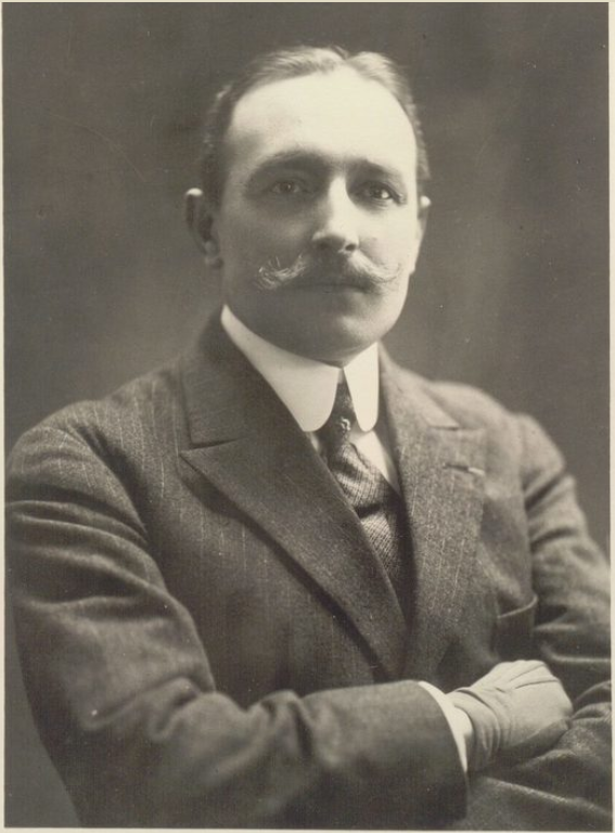 Portrait photographique de Paul Pascal